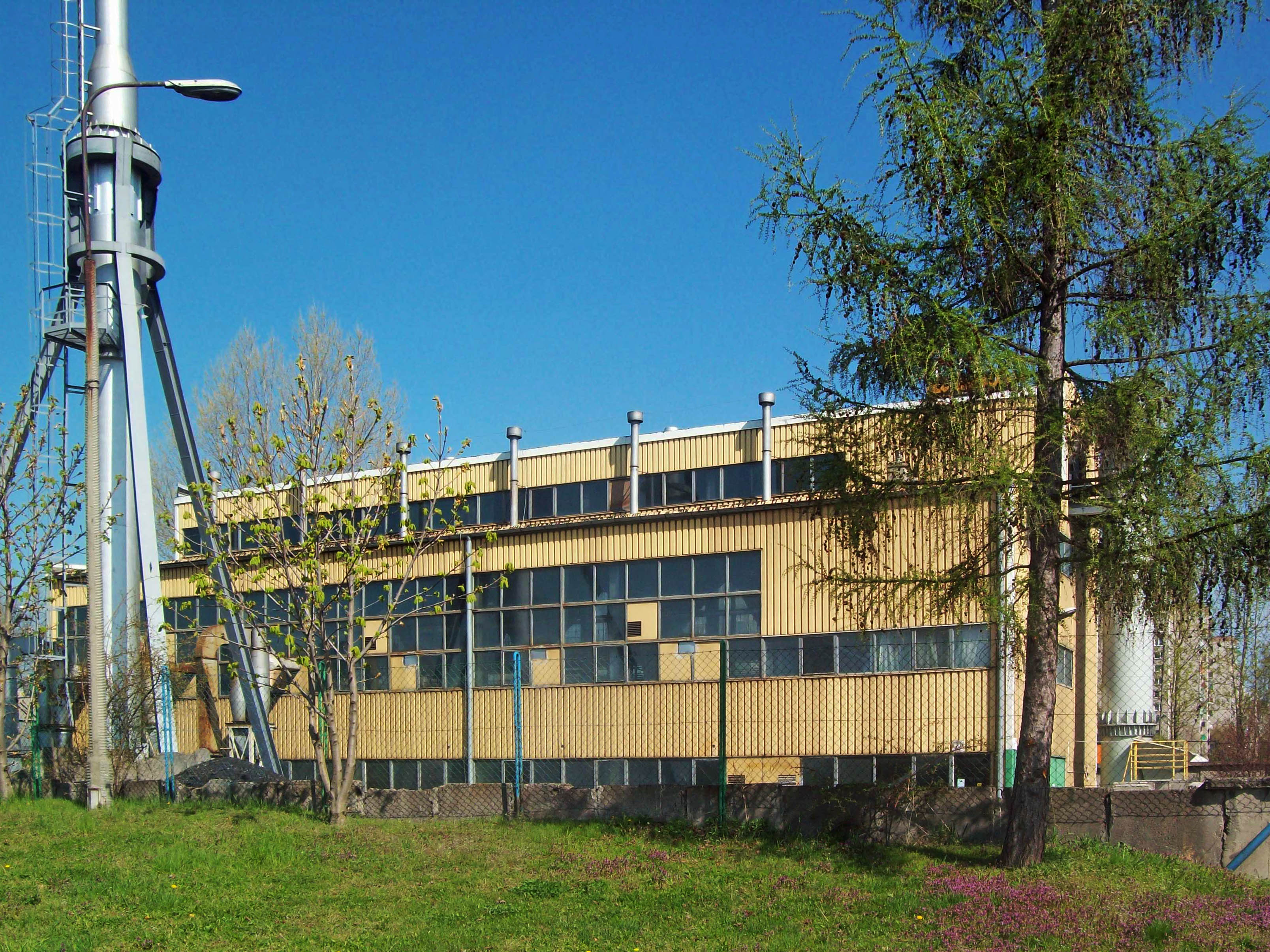 Power station in the Kłodzko